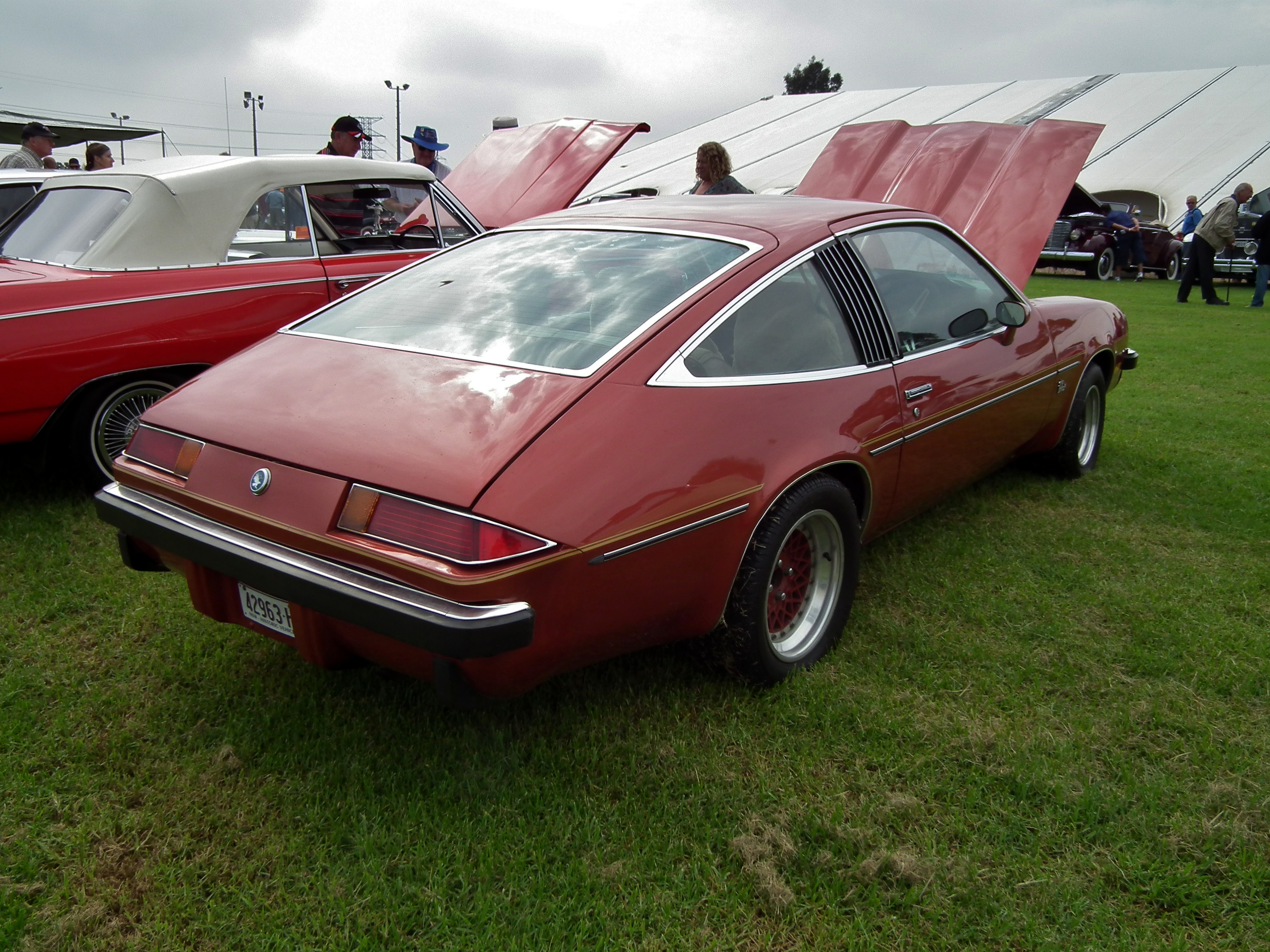 1977 Buick Skyhawk coupe. Taken at the General Motors Display Day, held in the grounds of Penrith Panthers Club, Penrith NSW.